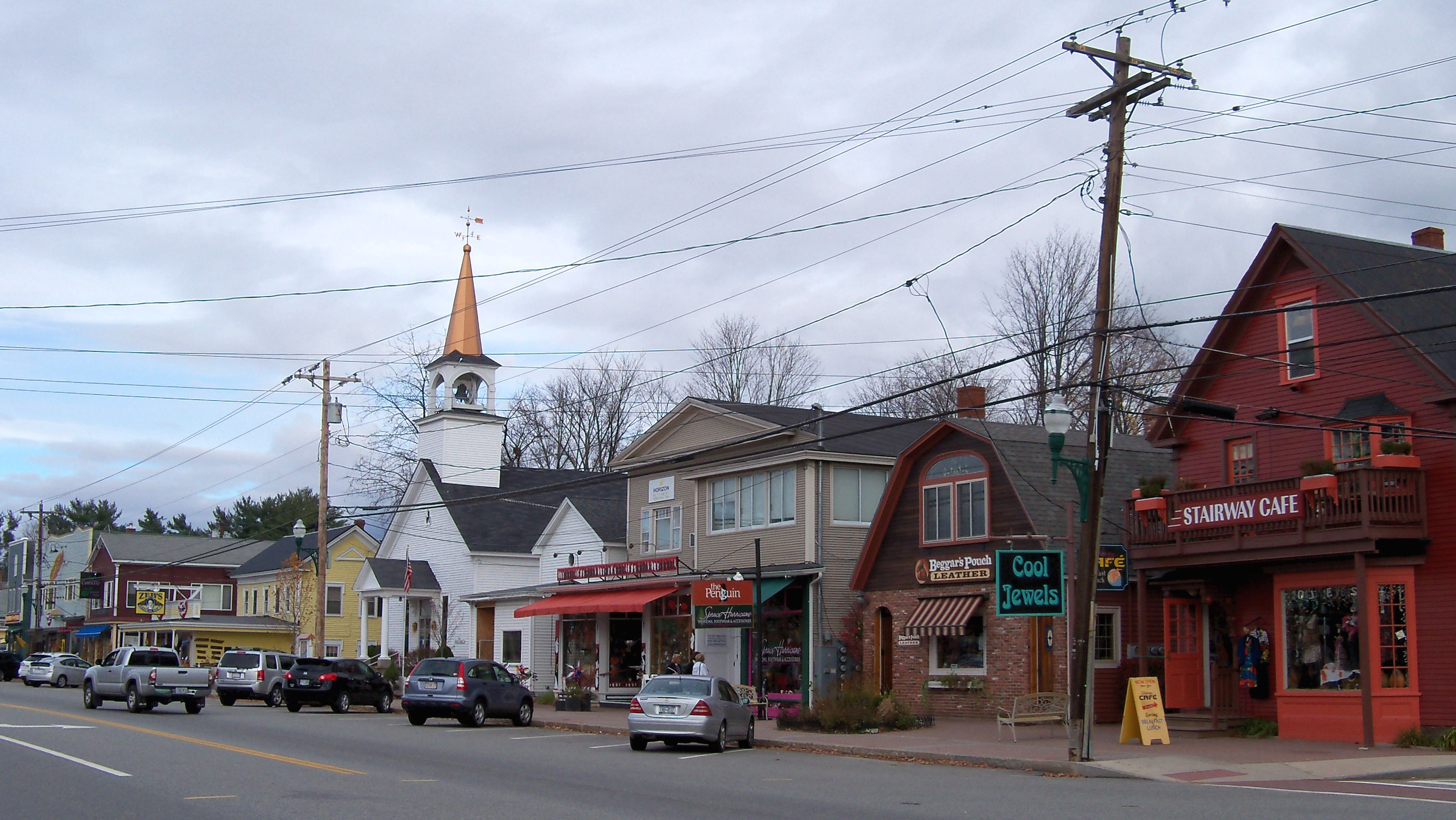 Main Street in North Conway, New Hampshire, USA.